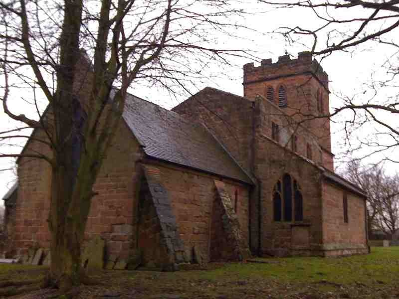 St Chad's Church, Wishaw in the winter.